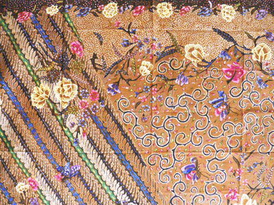 Batik tulis Jawa Hokokai from Pekalongan, with dawn-dusk pattern (two alternating patterns), butterflies, and cherry blossoms motif.